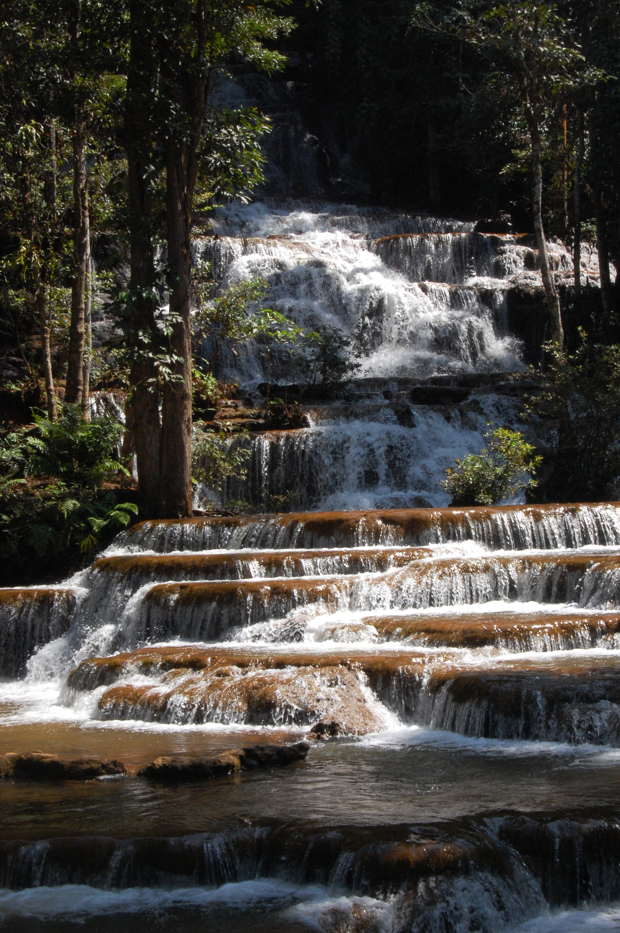 Pacharoen waterfall